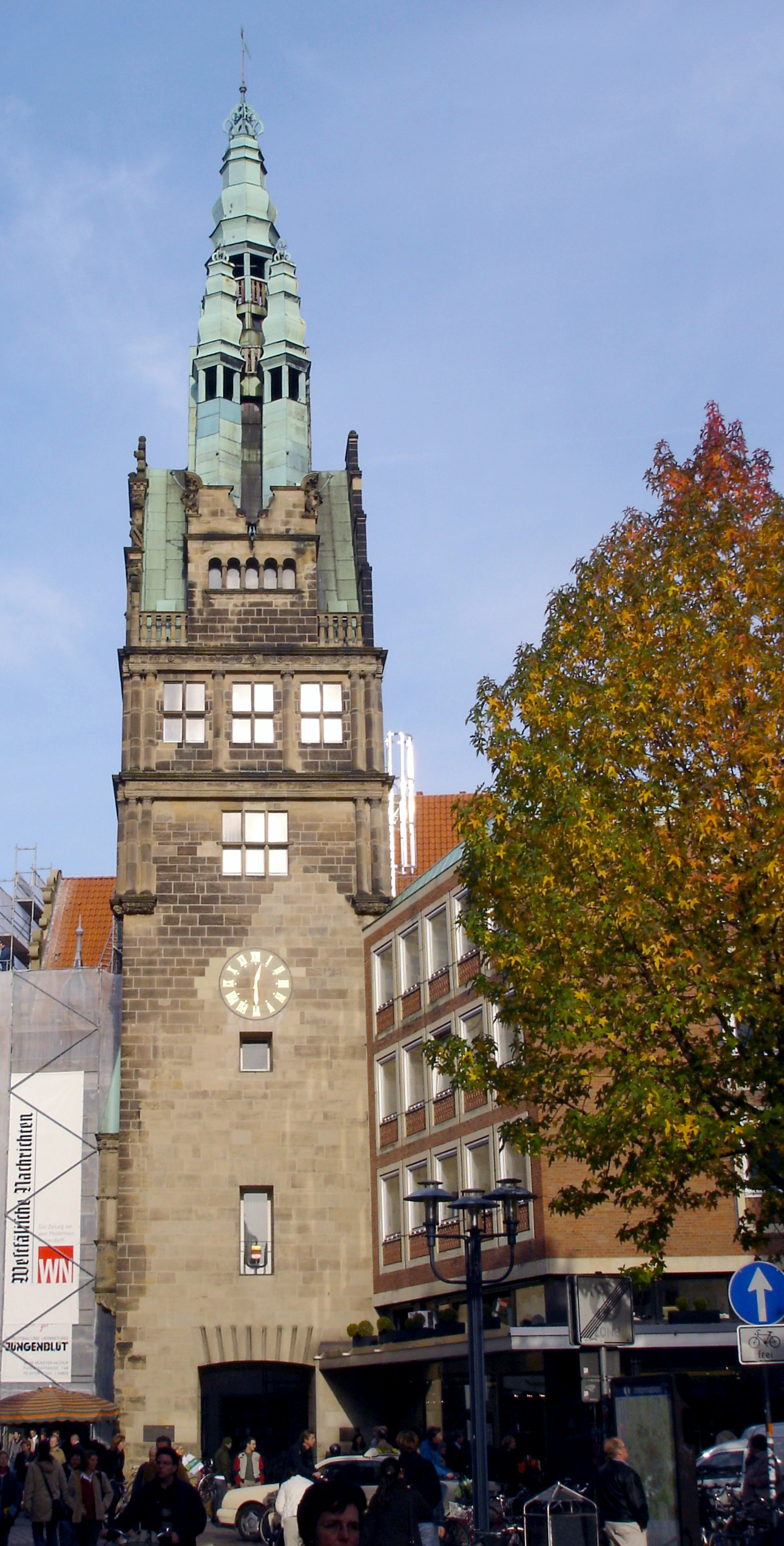 View ob the south side of the Stadtturm in the city of Münster (Westphalia), Germany